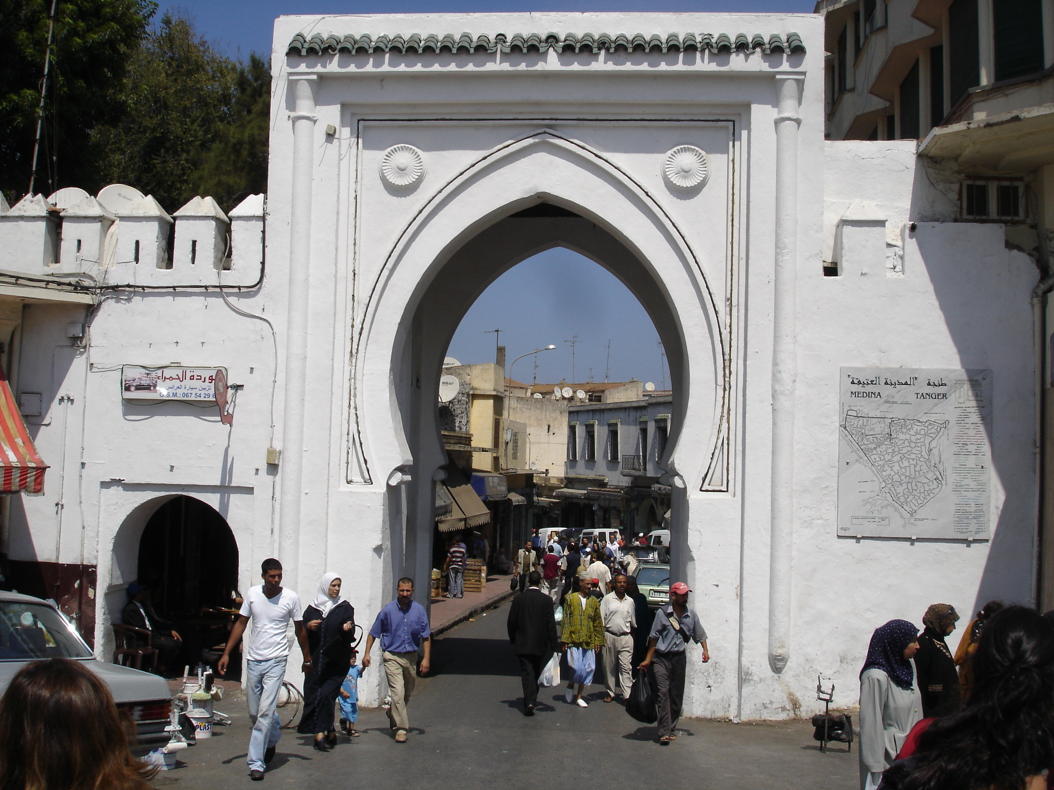 The medina quarter of Tangier, Morocco